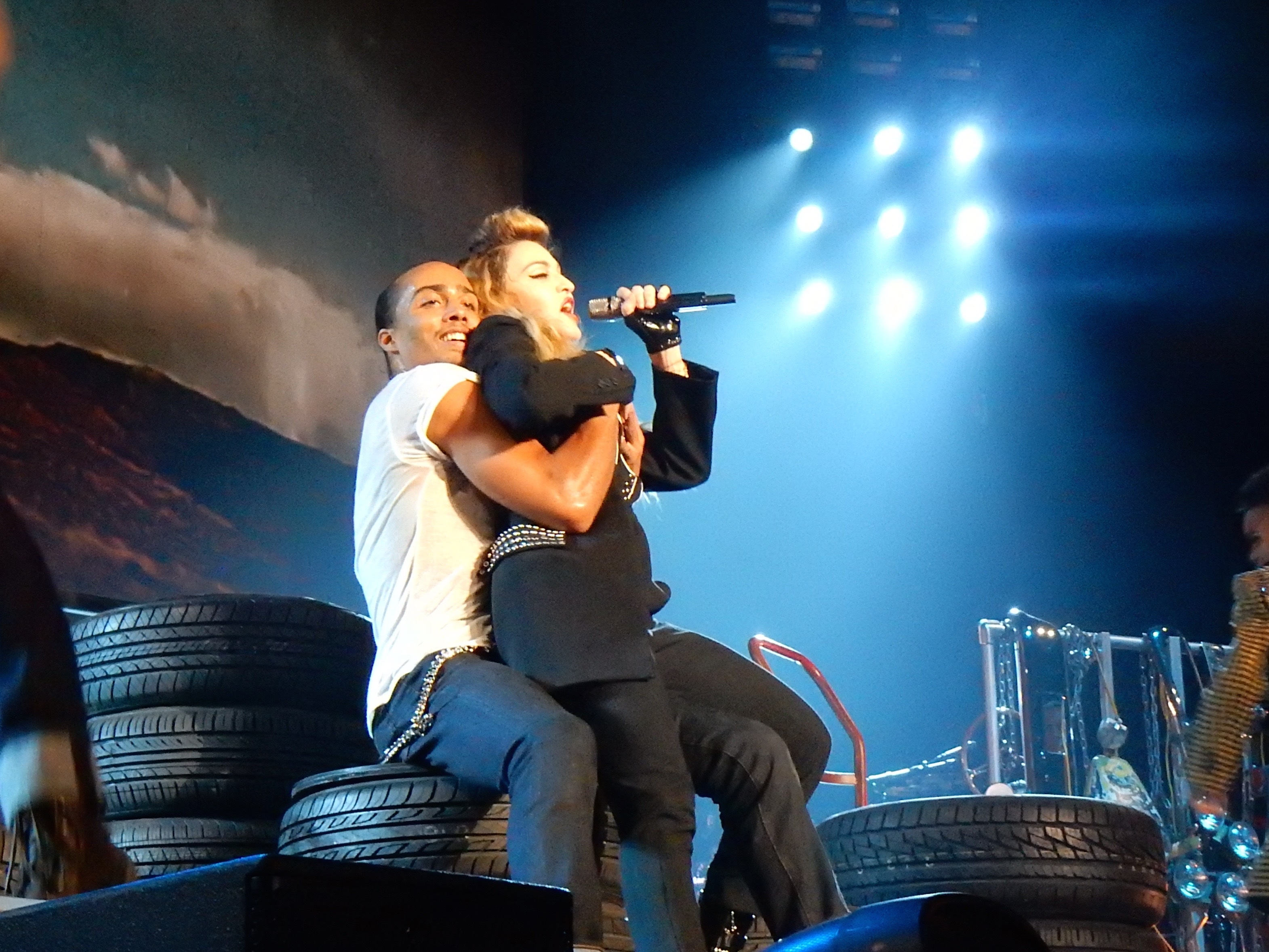 Madonna - Rebel Heart Tour 2015 - Berlin 1